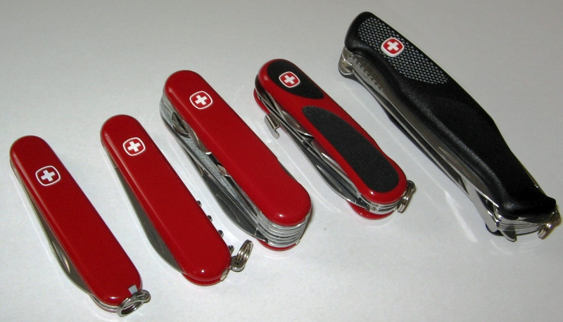 Assortment of Swiss Army knives made by Wenger. From left to right: Wenger Basic, Wenger Classic 63, Wenger Monarch, Wenger EvoGrip S17, Wenger NewRanger 70 Handyman.